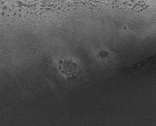 Air photo of Newfound Harbor Key, a coral reef in the Florida Keys, in February 1979. The reef is within a Sanctuary Preservation Area (SPA). Image width is approximately 1 km.